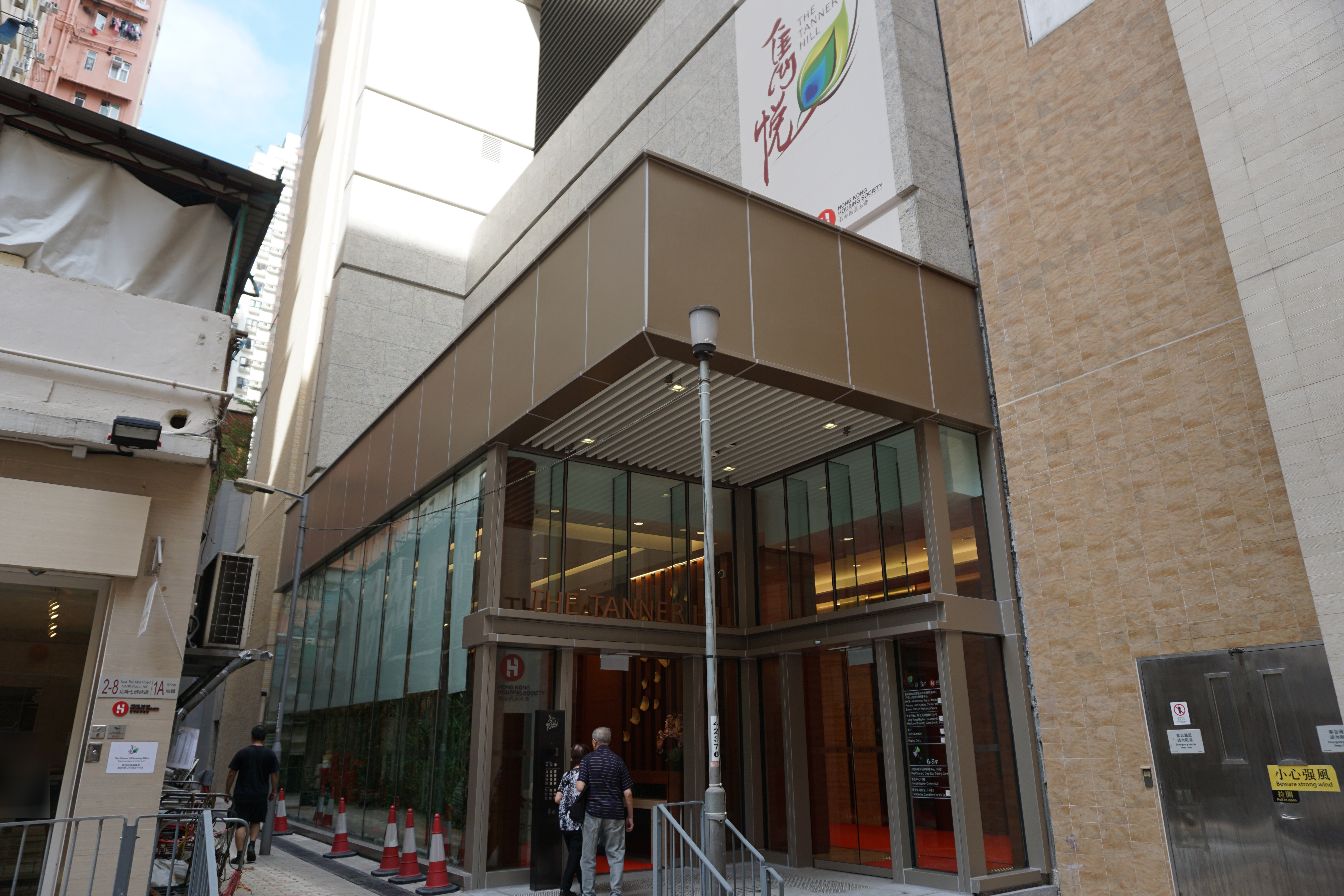 The Tanner Hill in North Point, Hong Kong.